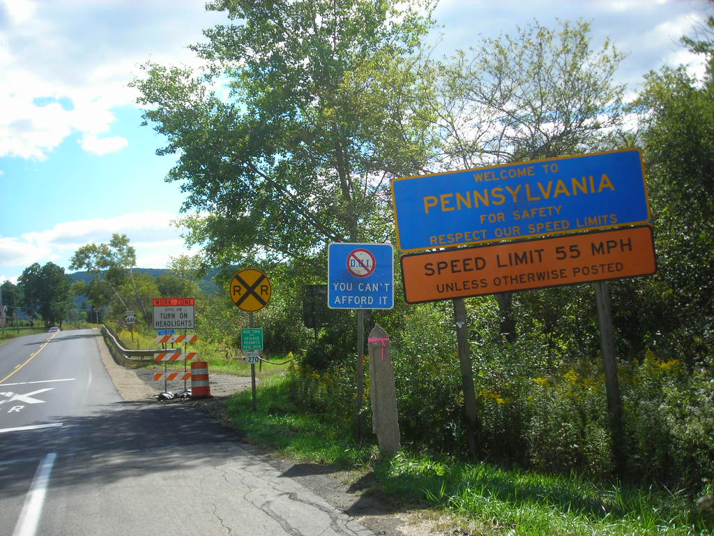 Pennsylvania State Route 446 heading southbound at the state line from New York State Route 305 in McKean County, Pennsylvania. Note the old signage used to the right for the Pennsylvania state line, and the marker stating the state line just to its left.